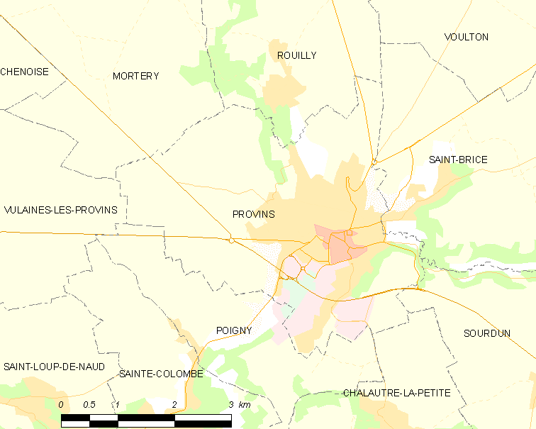 Map of French municipality Provins